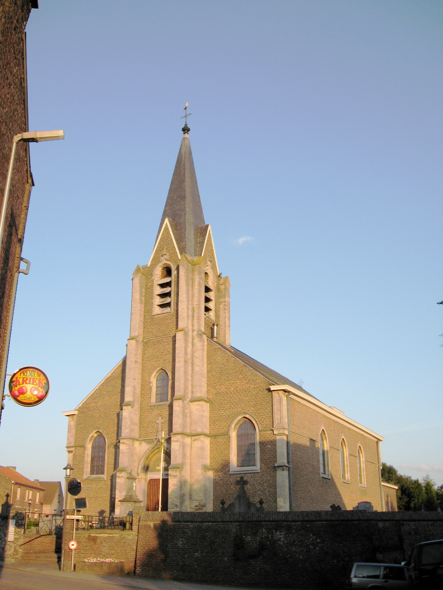 Church of the Holy Cross in Mal, Tongeren, Limburg, Belgium